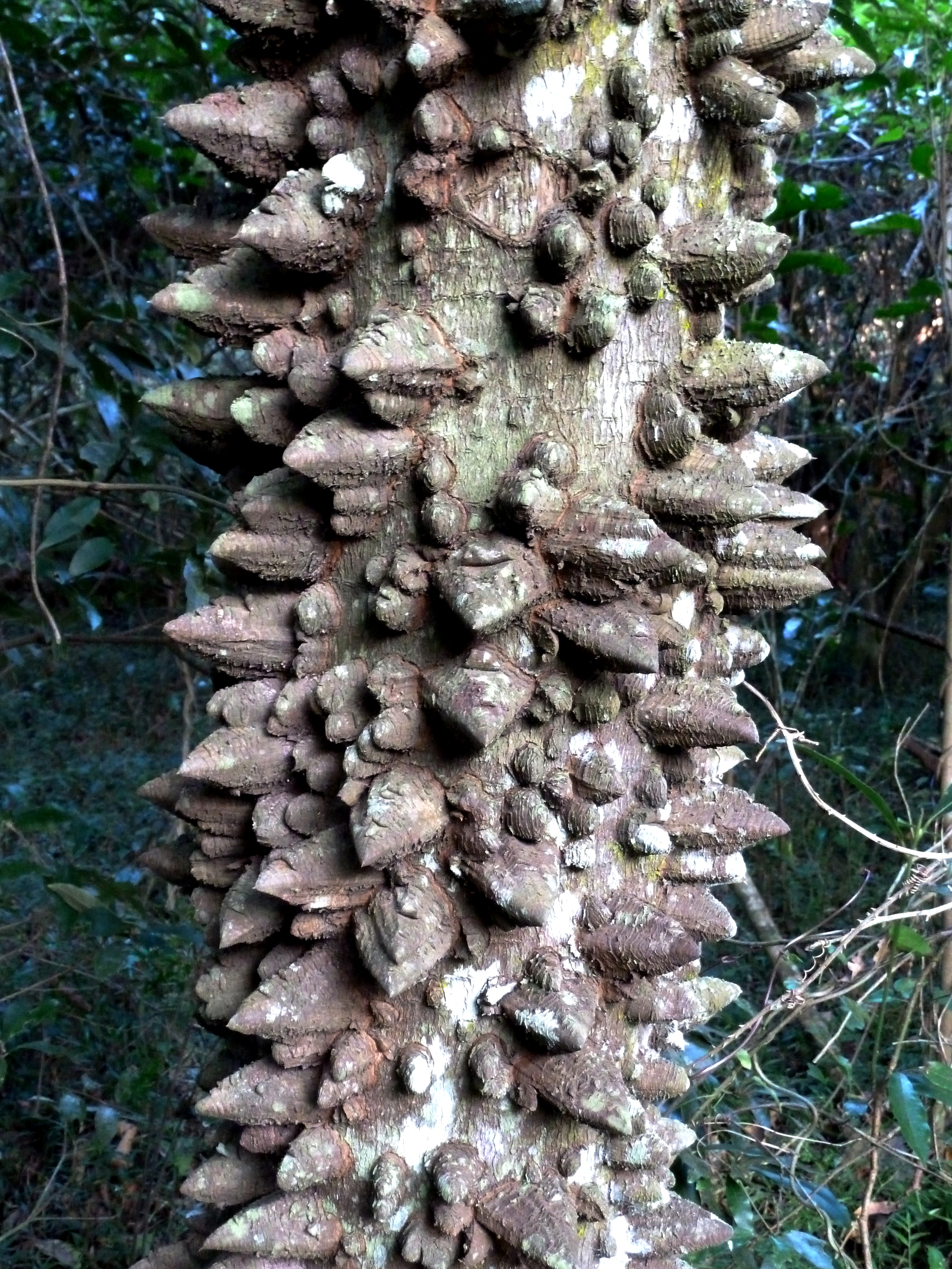 Trunk of a Forest knobwood in Krantzkloof Nature Reserve, KwaZulu-Natal